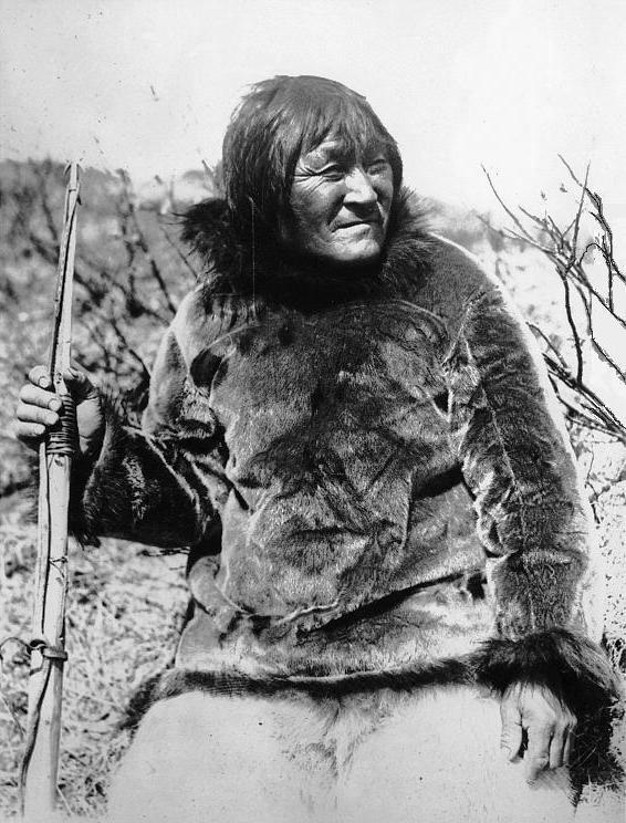 Photograph, Nanuk (White Bear), Port Harrison (?), QC, about 1920, Samuel Herbert Coward, Silver salts on paper mounted on paper - Gelatin silver process - 10 x 8 cm